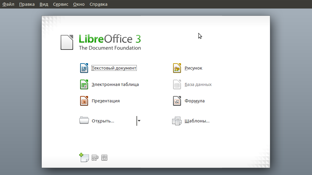 LibreOffice screenshot